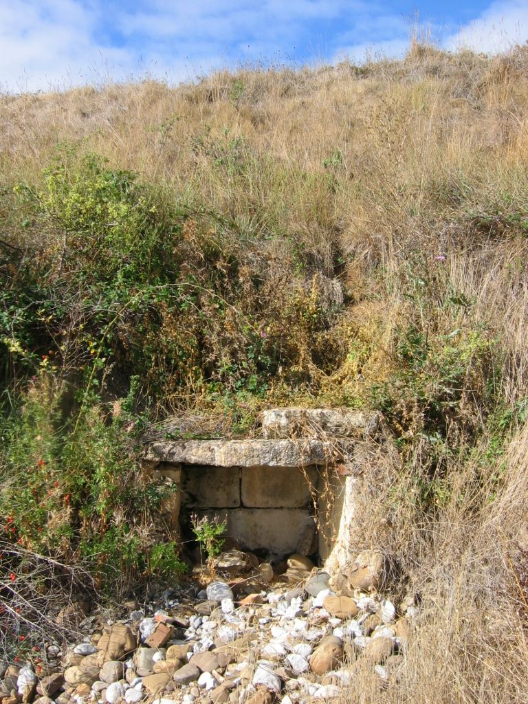 Uno de los manantiales que brotan de la cima del cerro de Las Cuestas en Buenavista de Valdavia